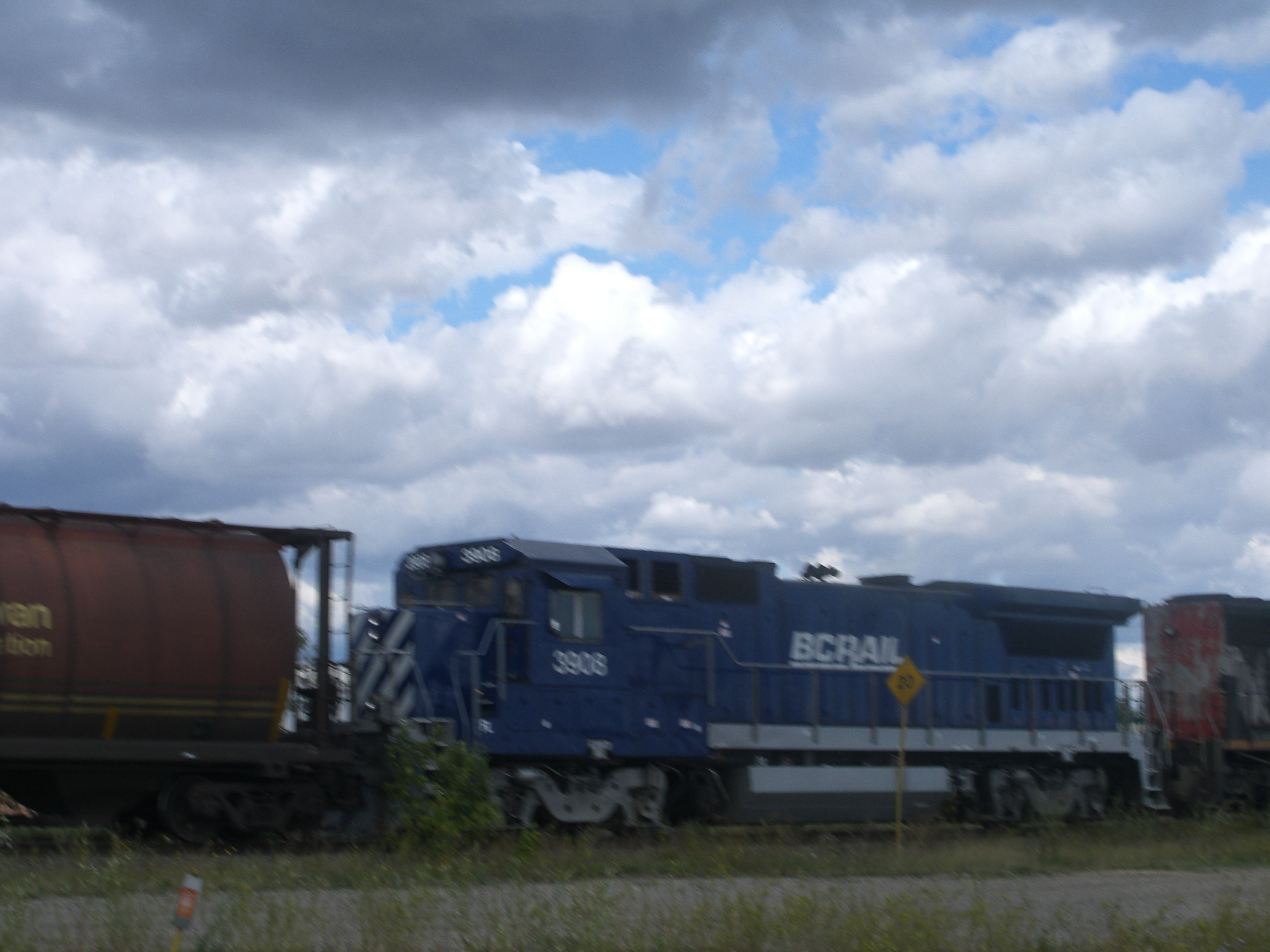 Myke Waddy, August 31st 2006. East junction, Edmonton Alberta Canada.